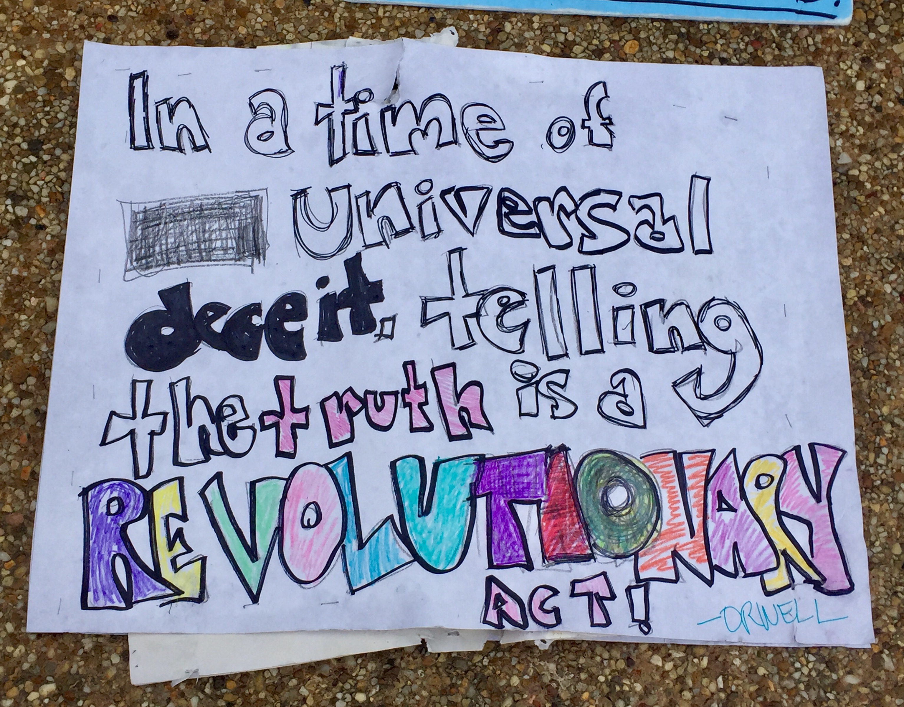 March for Science, Washington, DC